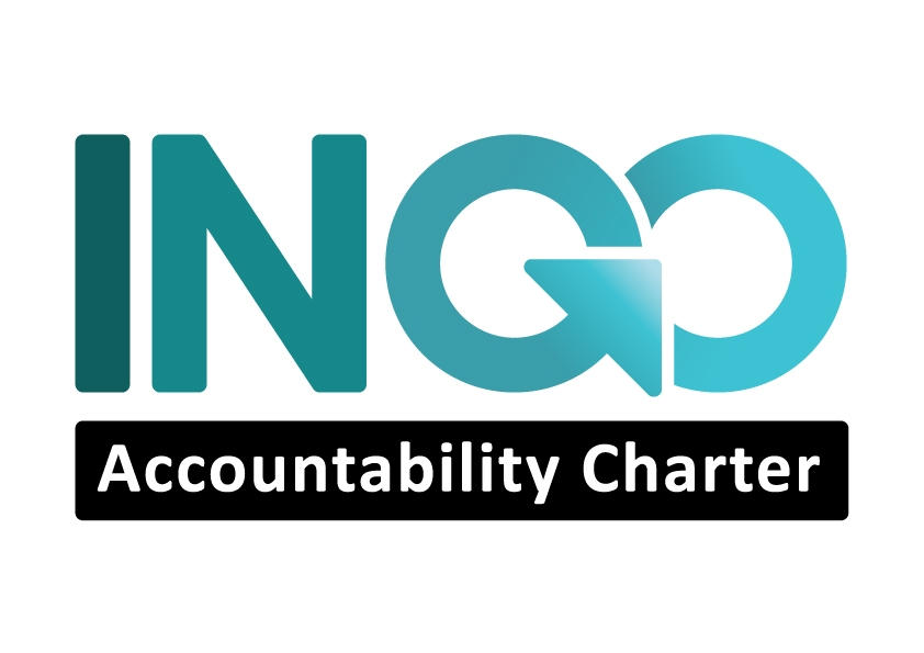 The INGO Accountability Charter is a commitment of international NGOs to a high standard of transparency, accountability and effectiveness.